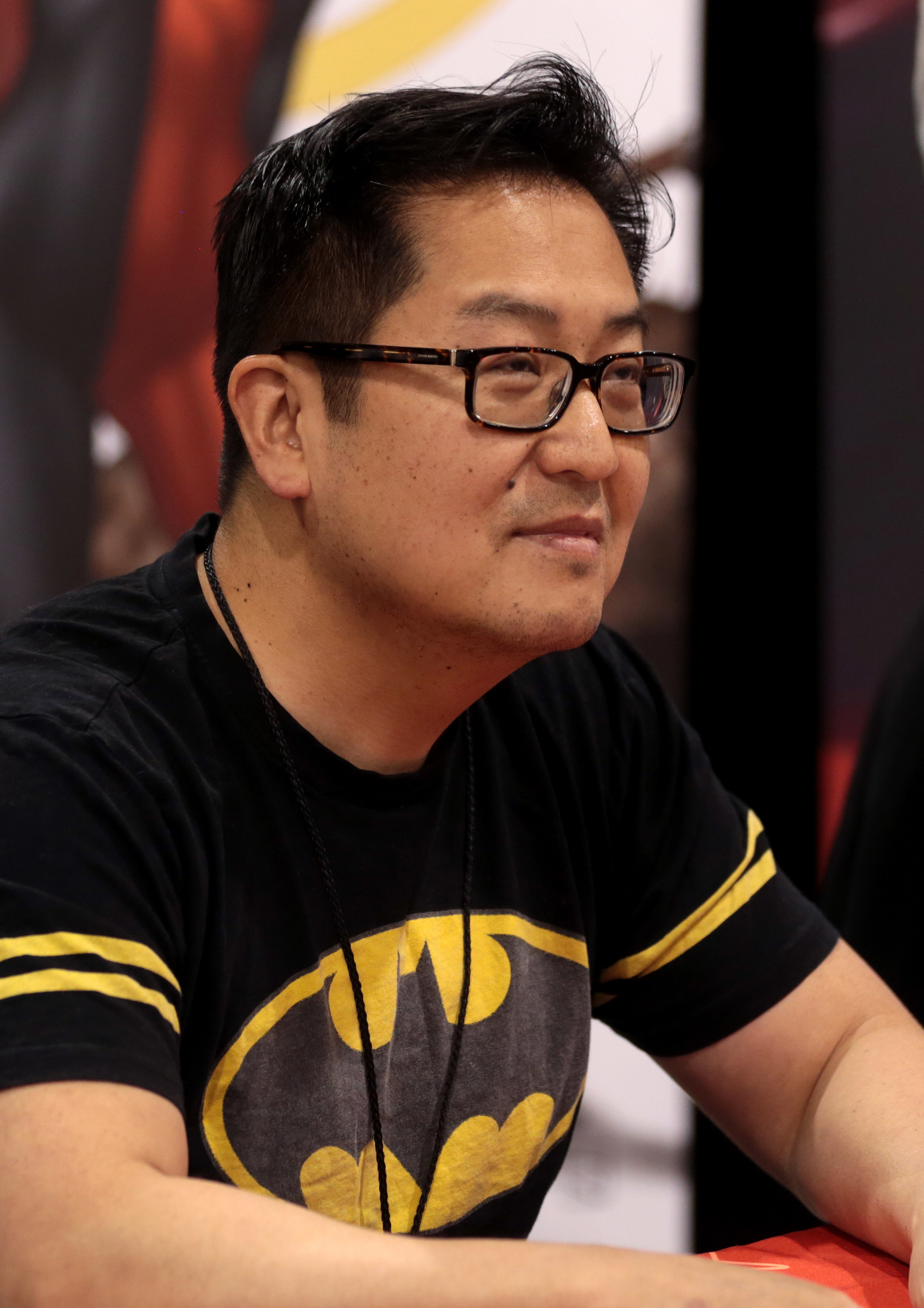 Frank Cho speaking at the 2018 Phoenix Comic Fest in Phoenix, Arizona.